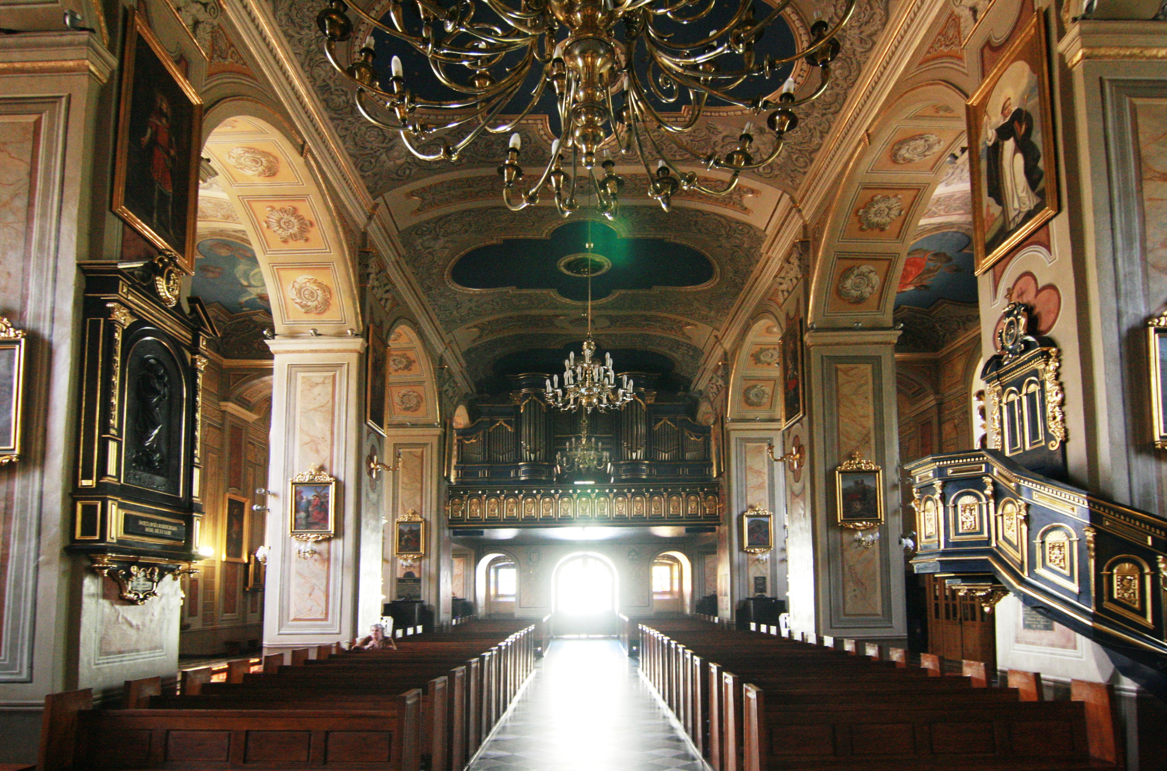 Rear view